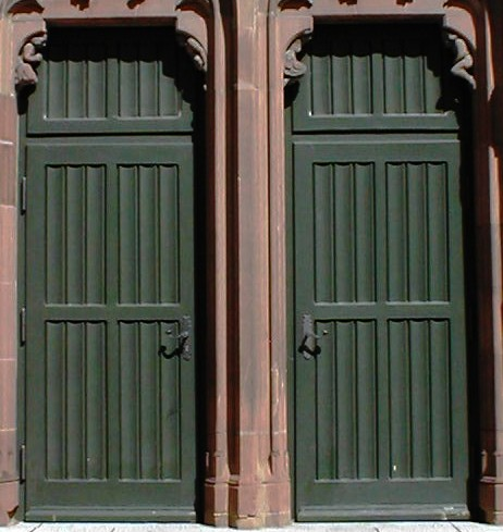 s.o.